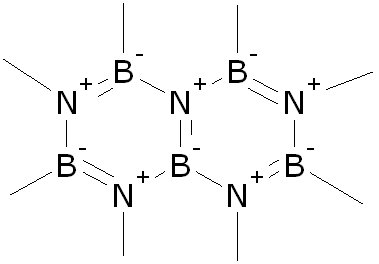 Boron nitride